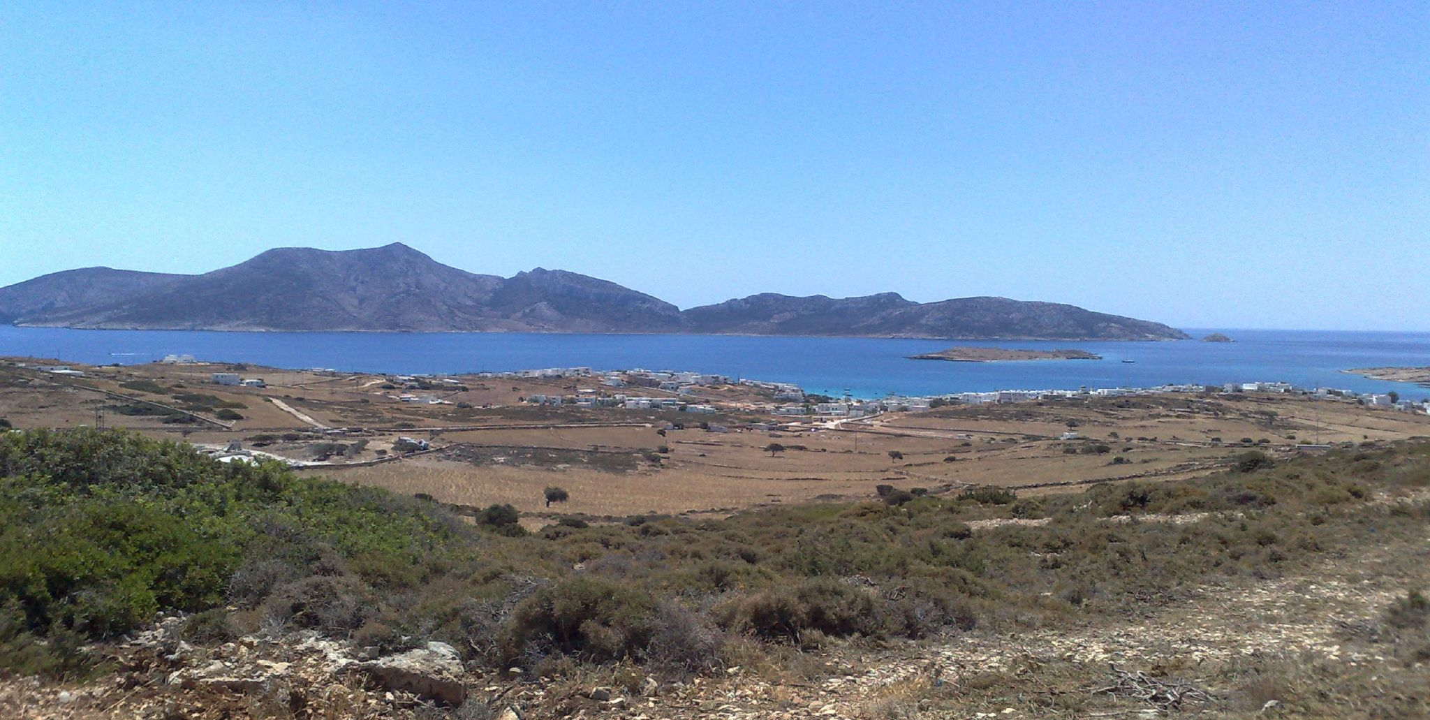 Greek island Keros, seen from Pano Koufonisi, Cyclades, Greece